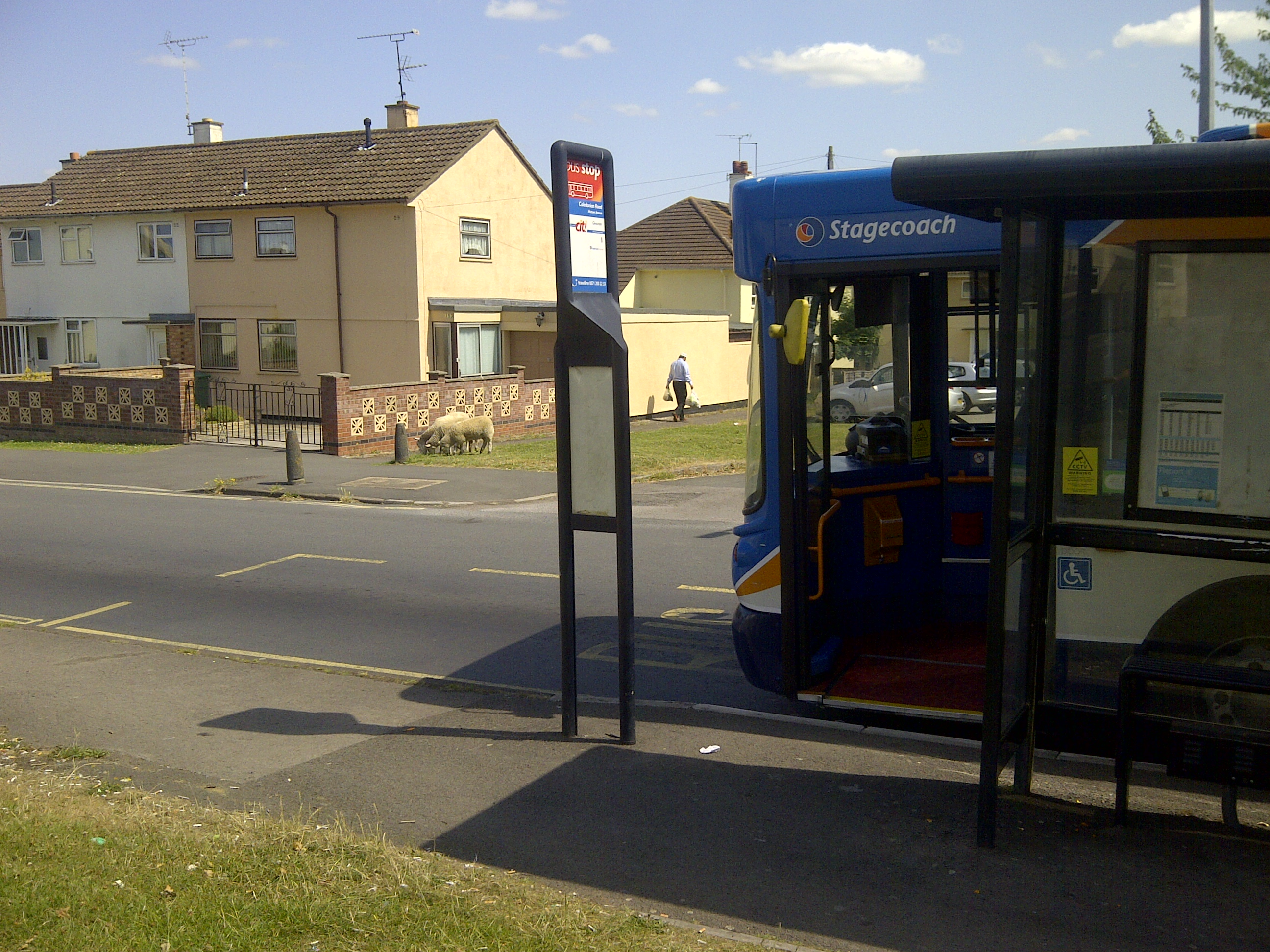 MAN 18.220 ALX300 22378 of Stagecoach West at the Matson terminus on 9th July 2015. Note the sheep grazing opposite.